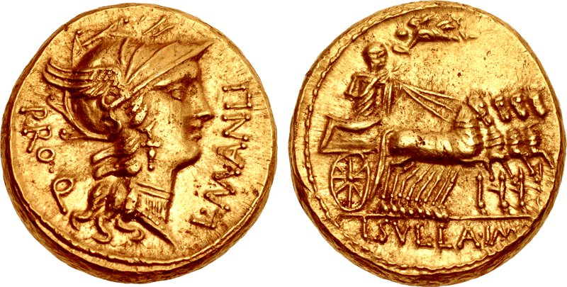 L. Sulla and L. Manlius Torquatus 82 BC. AV Aureus (18mm, 10.36 g, 12h). Military mint moving with Sulla. Head of Roma right, wearing crested helmet decorated with a wing, single-pendant earring, and ornate necklace; L • MANLI up right field, PRO • Q down left / Sulla, holding branch in right hand and reins in left, driving triumphal quadriga right; above, Victory flying left, crowing him with wreath; L • SVLLA • IM in exergue. Crawford 367/4; Sydenham 756; Bahrfeldt 13; Calicó 16; Biaggi 11; RBW 1385. EF, faint mark on cheek. From the collection of Dr. Lawrence A. Adams, purchased from Classical Numismatic Group, November 1992.